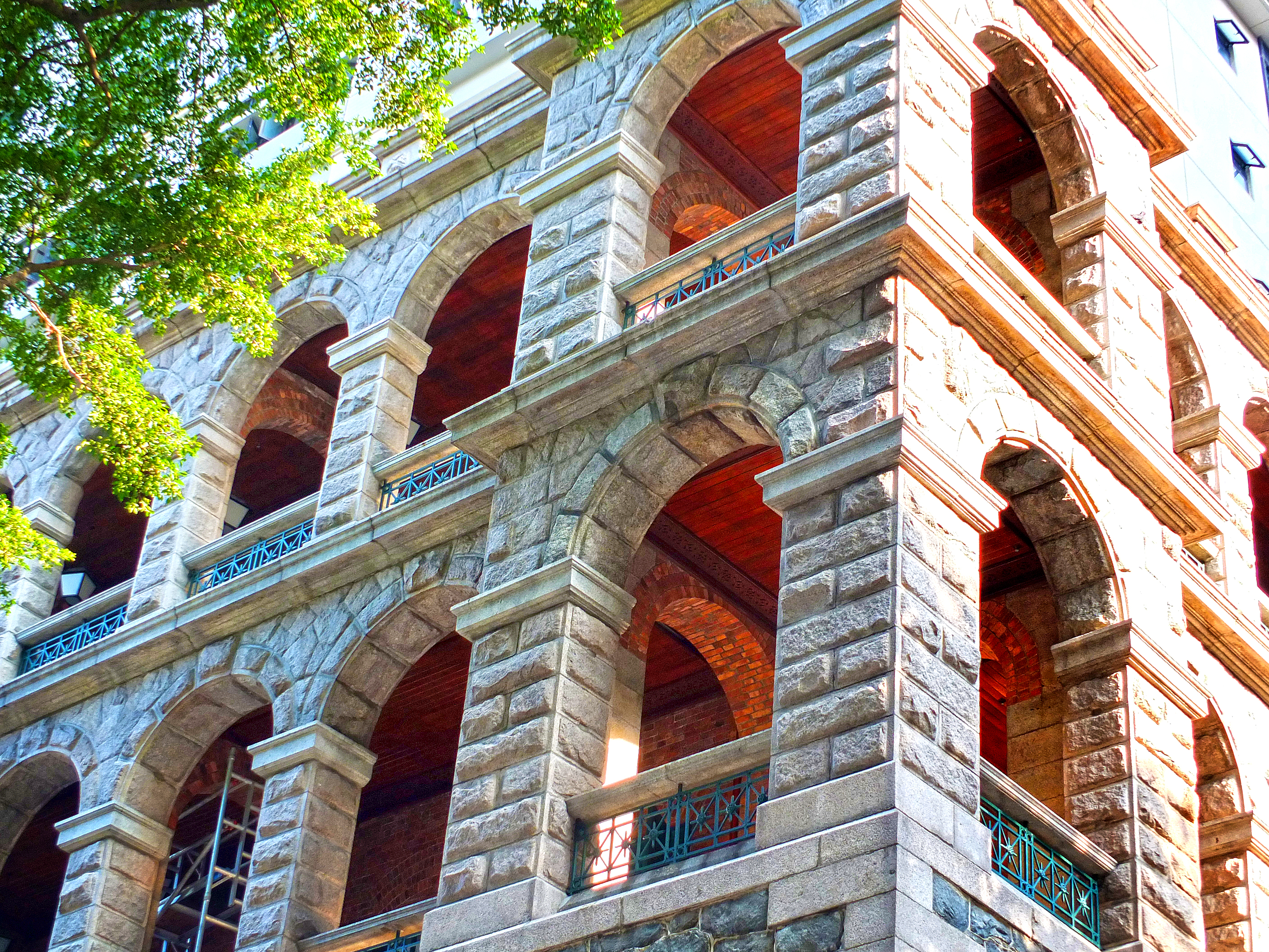 The Old Mental Hospital on High Street, widely believed by locals to be "The Ghost Building"